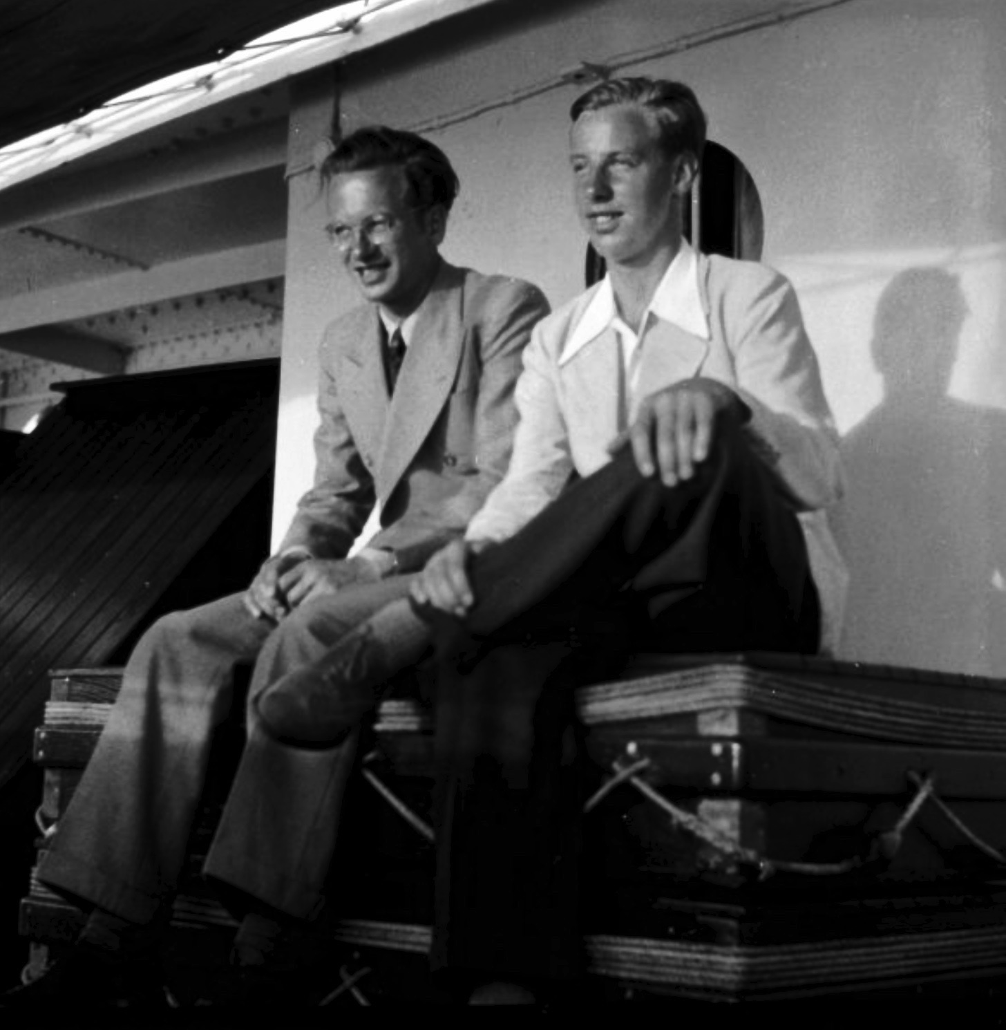 Arnold Ernst Fanck (1919–1994), on the right, the son of German moviemaker Arnold Fanck (1889–1974) aboard cruise ship TS Bremen after the shooting for the German movie A German Robinson Crusoe in Tierra del Fuego and Patagonia heading from Punta Arenas to Buenos Aires, Rio de Janeiro and Bahia to New York City. On the left: Rolf Meyer (1910–1963).